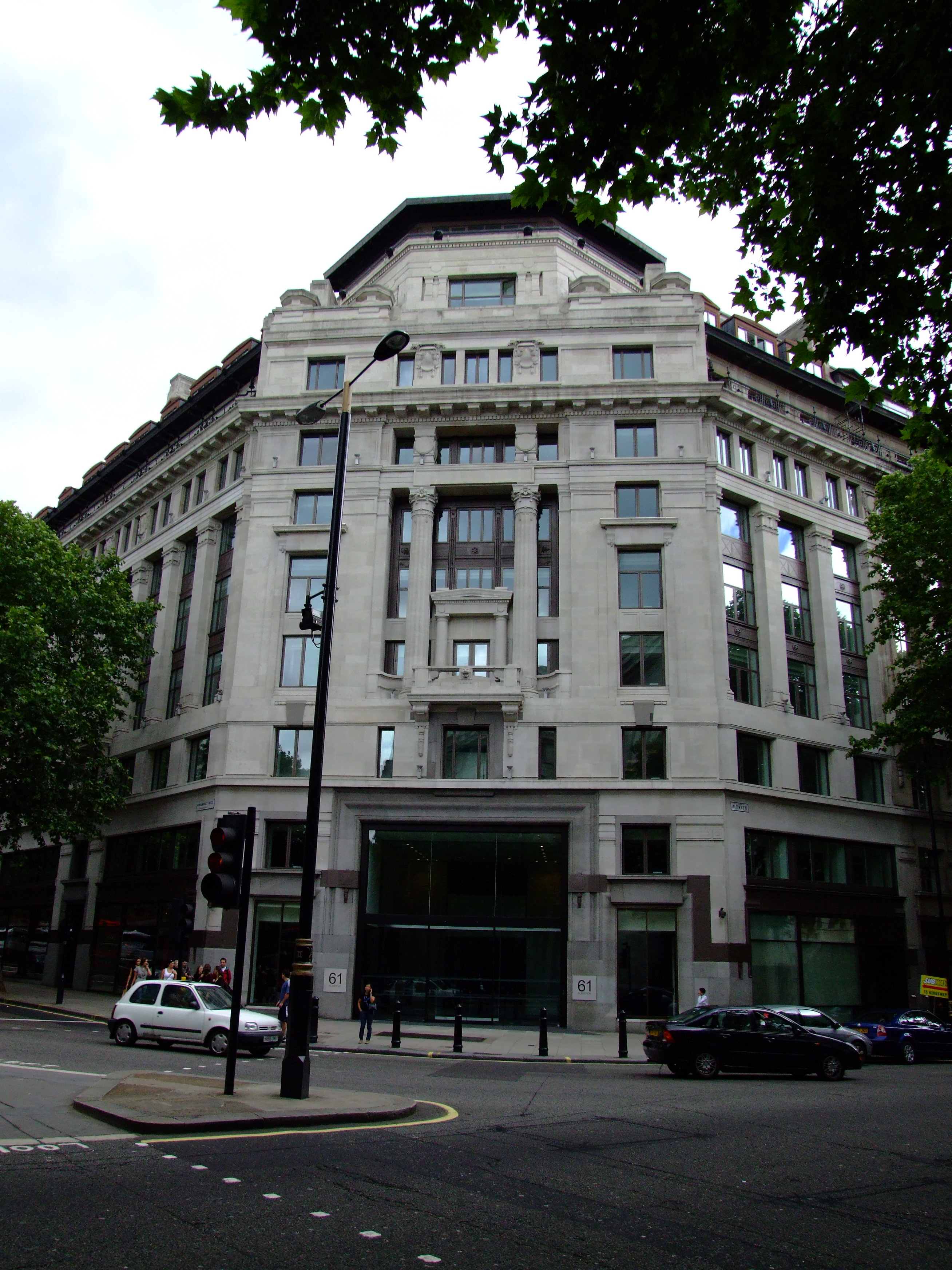 The former Television House